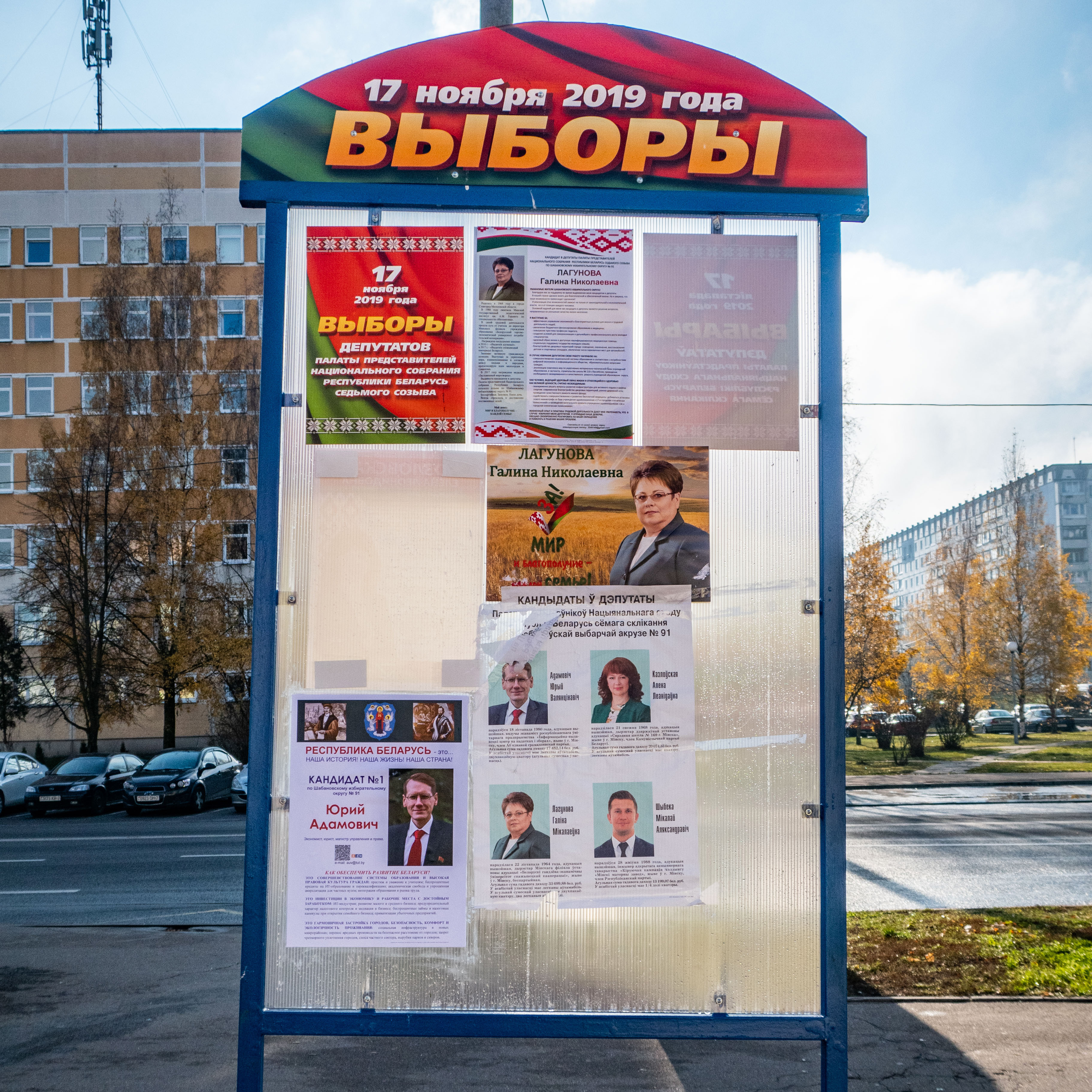 2019 parliamentary election candidates in Belarus — information board. Minsk, Belarus